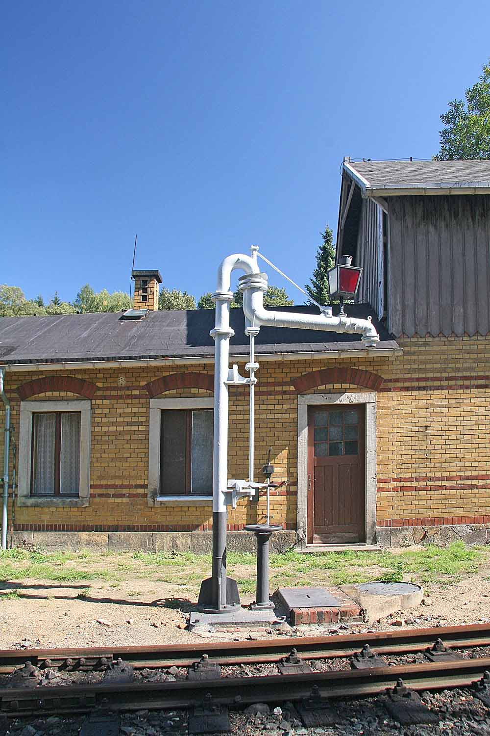 Water crane at Oybin narrow gauge railway station, Germany.